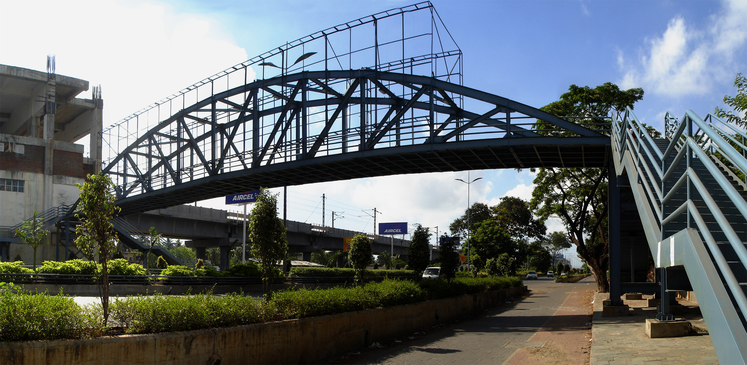 Pedestrian bridge at Indira Nagar station, Chennai